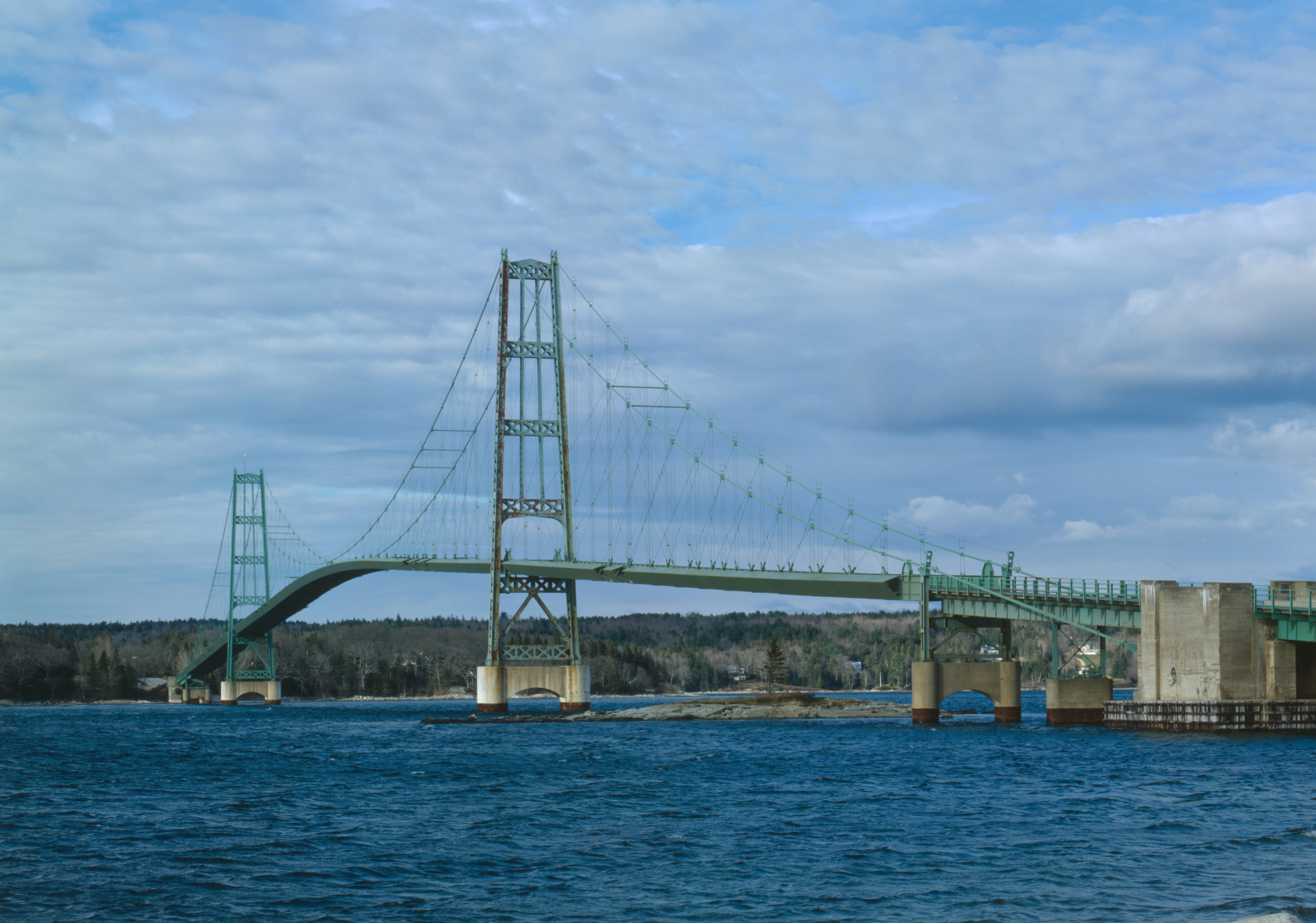 The Deer Isle-Sedgwick Bridge is a suspension bridge spanning Eggemoggin Reach in the state of Maine